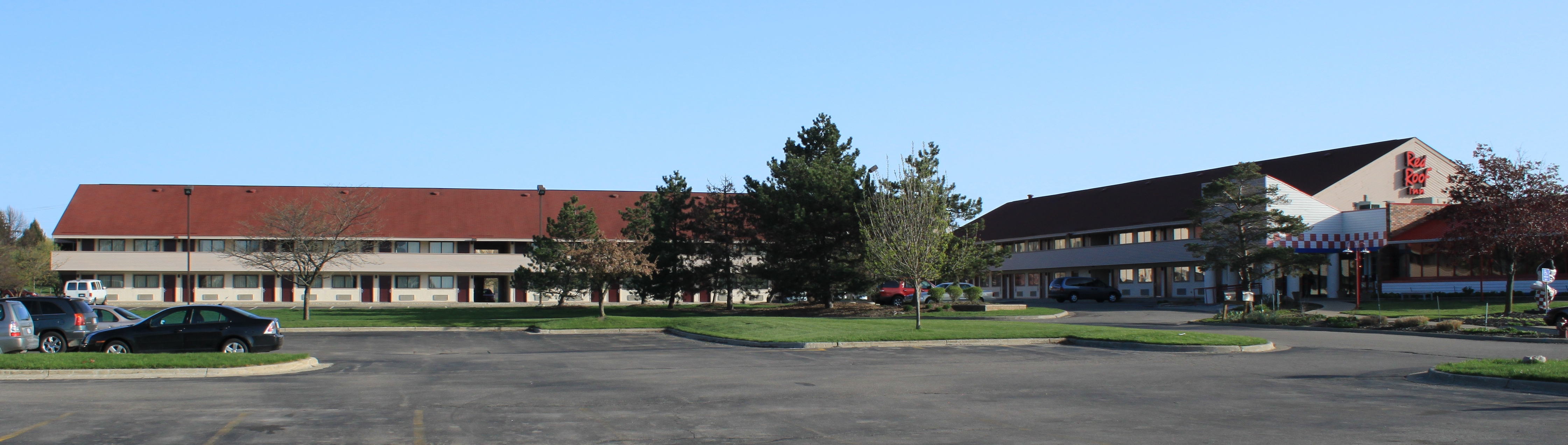 Red Roof Inn, 3621 Plymouth Road, Ann Arbor, MI 48105